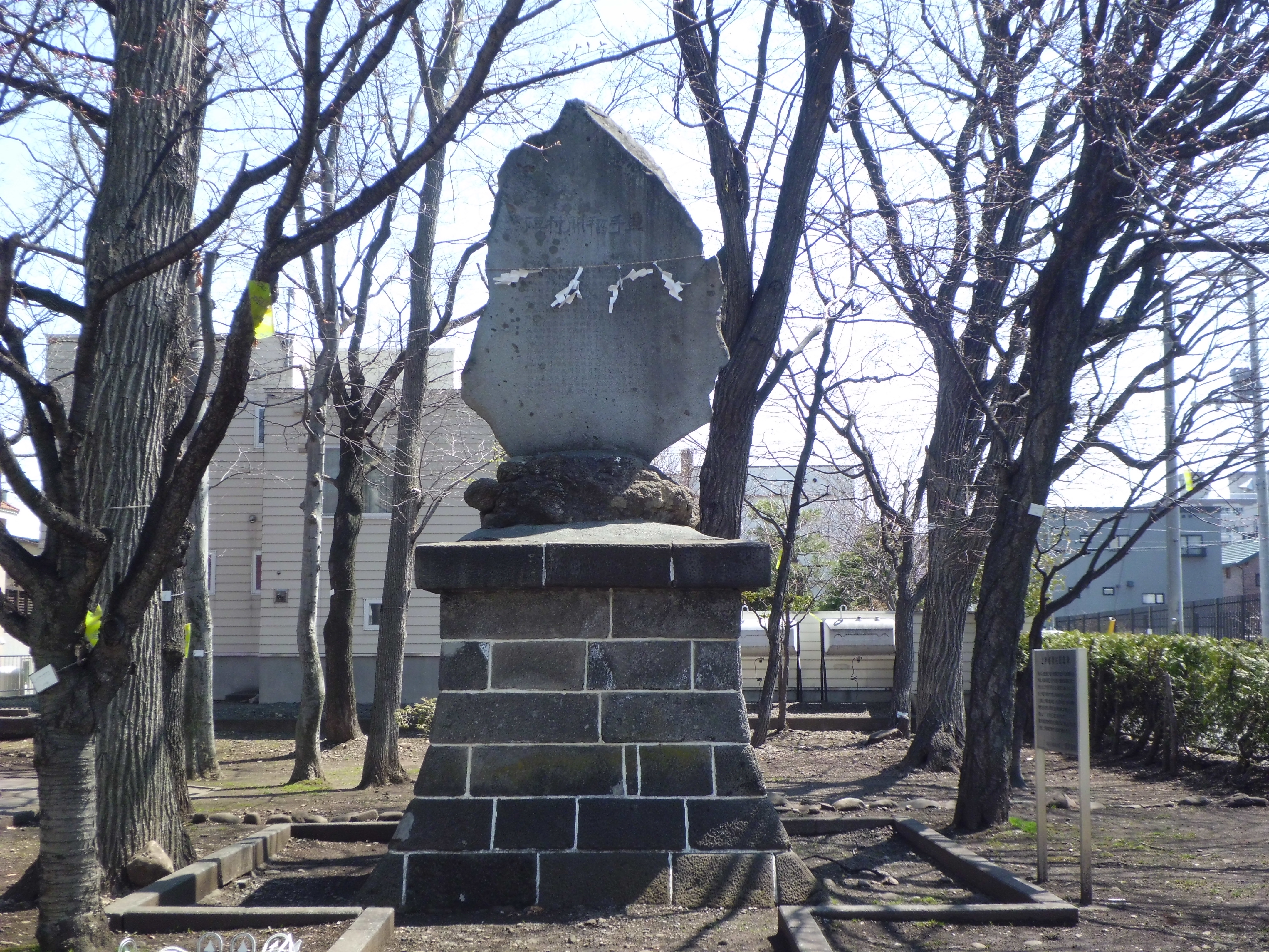 Monument to Development of Kami-Teine